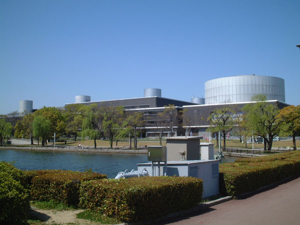 National museum of ethnology, Osaka, Japan. Photo by Japanese user, Fk.